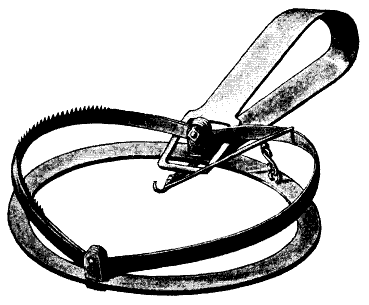 Jaw trap, for foxes